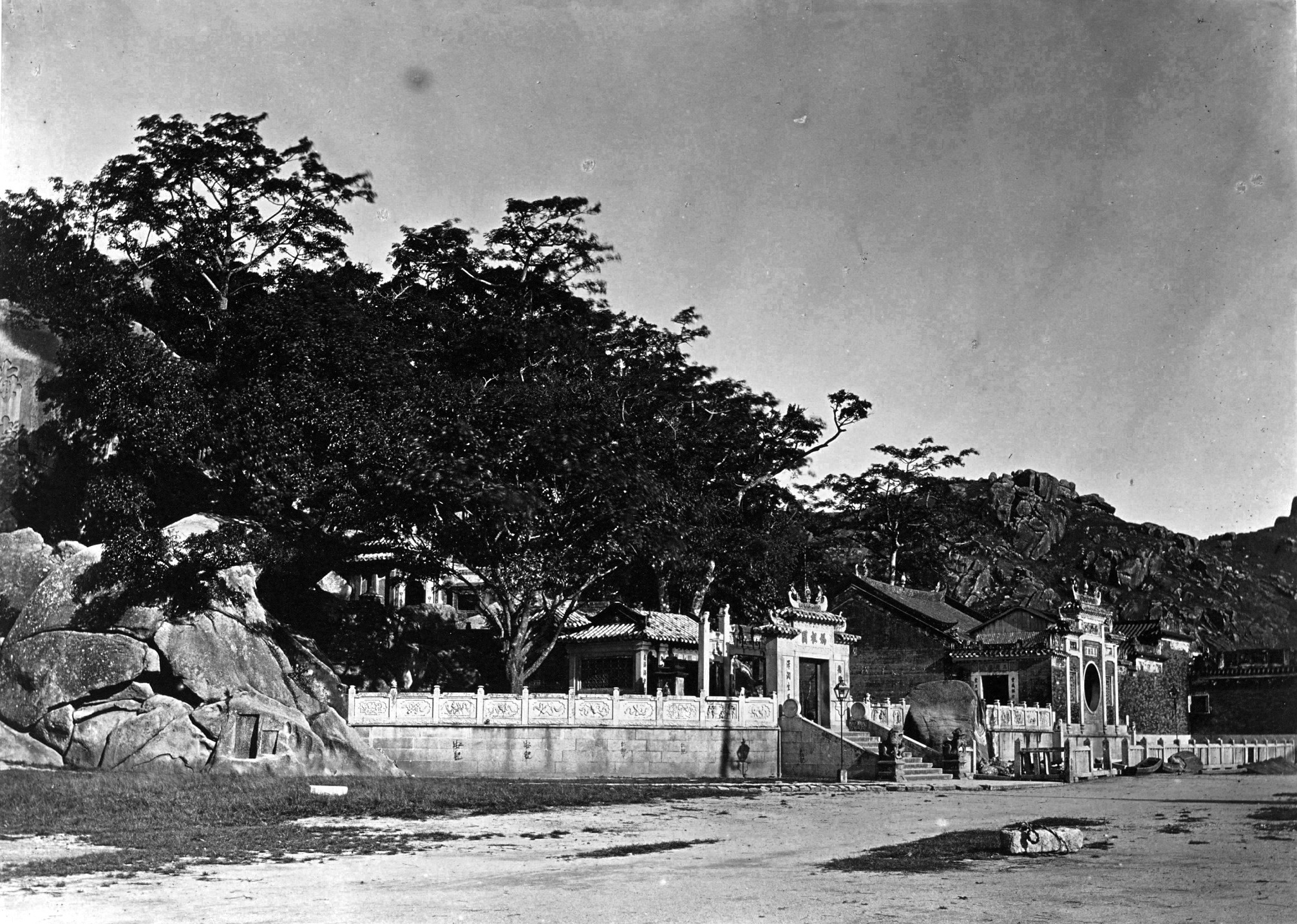 Photograph in From Afong, Photographer.